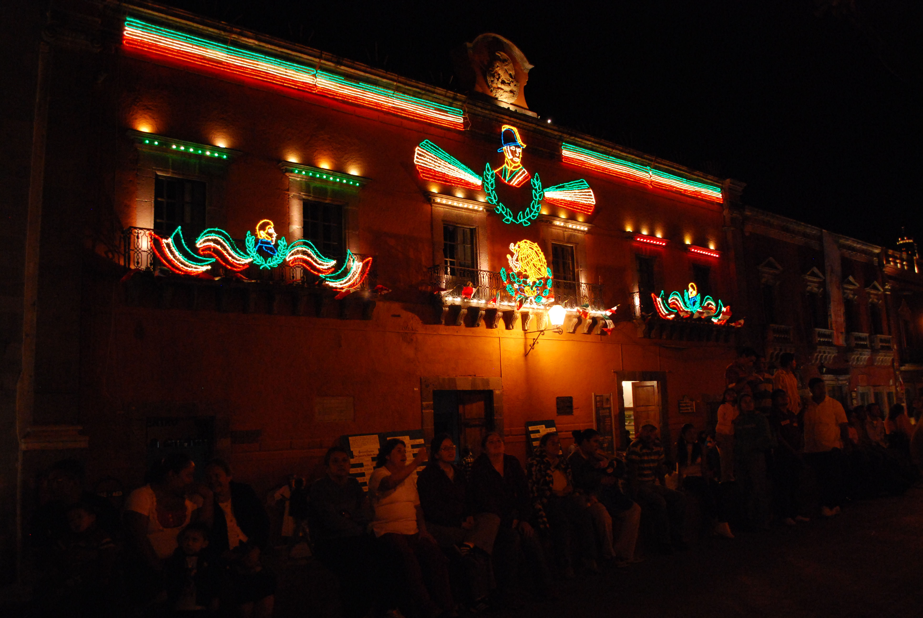 Municial Palace of San Miguel Allende lit for the Bicentennial 2010